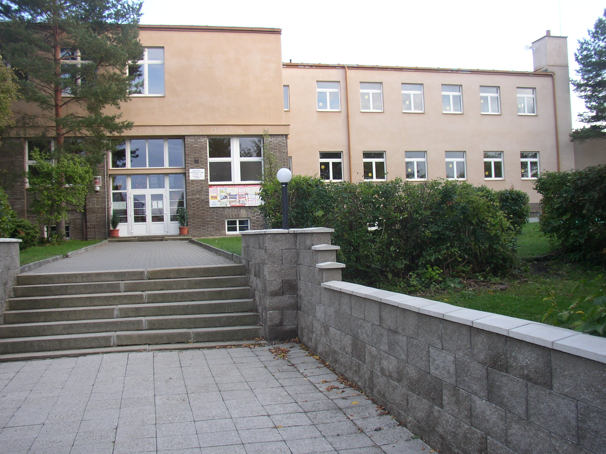 Kindergarten (2597 Růžena Svobodová Street) in Habešovna neighbourhood of Kladno, Kladno District, Central Bohemian Region, Czech Republic. Functionalist 1933 building by Jaroslav Rössler was the first purpose-designed kindergarten in the city. Partial view of northern side with main entrance.